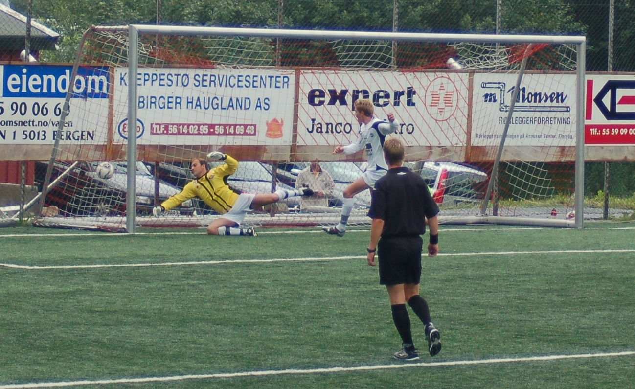 Ålgård FK scores against Askøy FK in the norwegian 2nd division group 3 4th august 2007